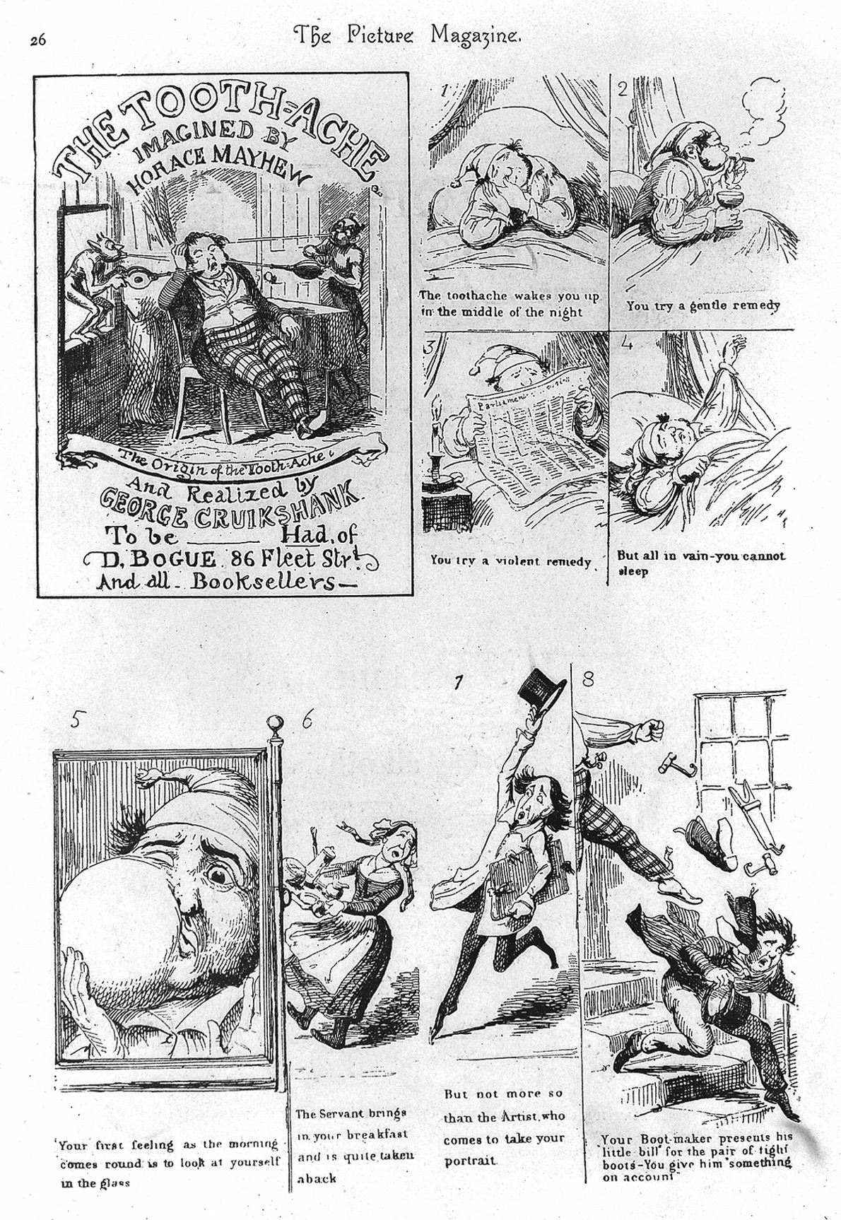 The tooth-ache, Imagined by Horace Mayhew (and illustrated by George Cruikshank) Wellcome Images Keywords: tooth ache; George Cruikshank; Horace Mayhew; George Cruikshank